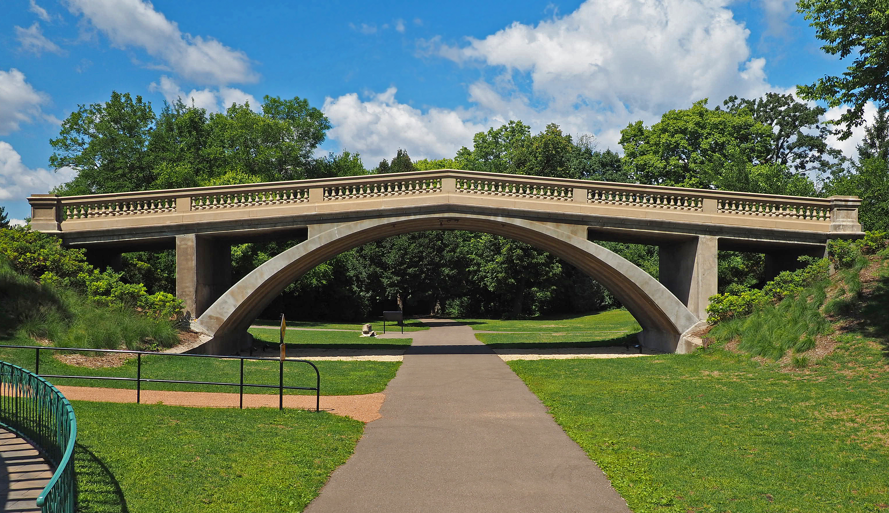 Bridge L-5853 after its 2015 restoration, Como Park, St Paul, Minnesota, USA. Viewed from the southeast.